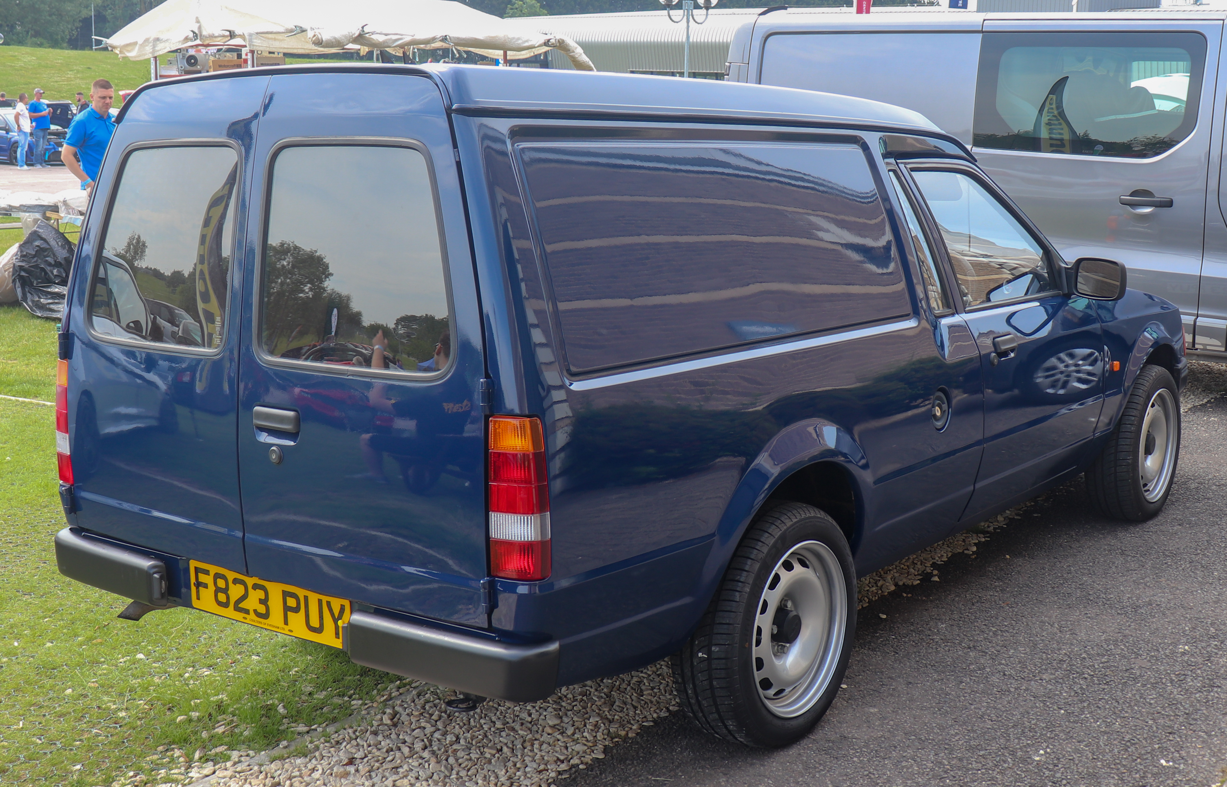 1988 Ford Escort 35 1.4 Rear Taken at the British Motor Museum, Gaydon